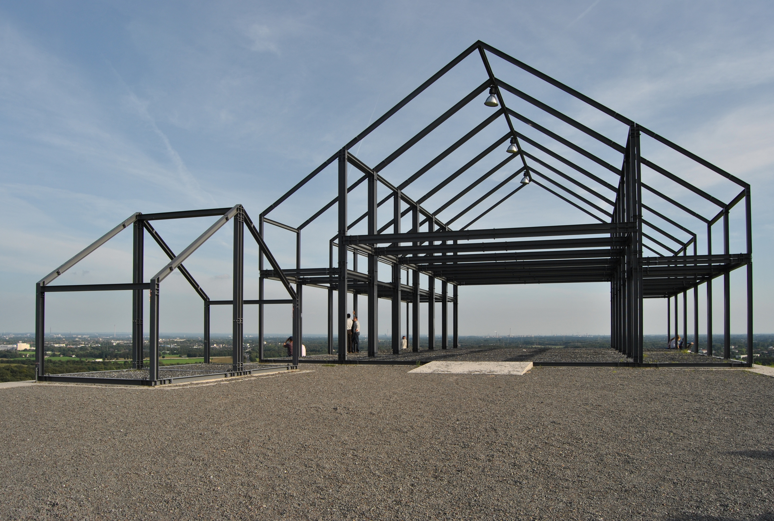 A steel frame in the form of a Low German Hallhouse used as a outdoor meeting place.